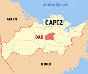 Map of Capiz showing the location of Dao